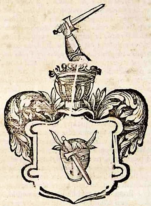 Pomian Coat of Arms by Kasper Niesiecki, 1740